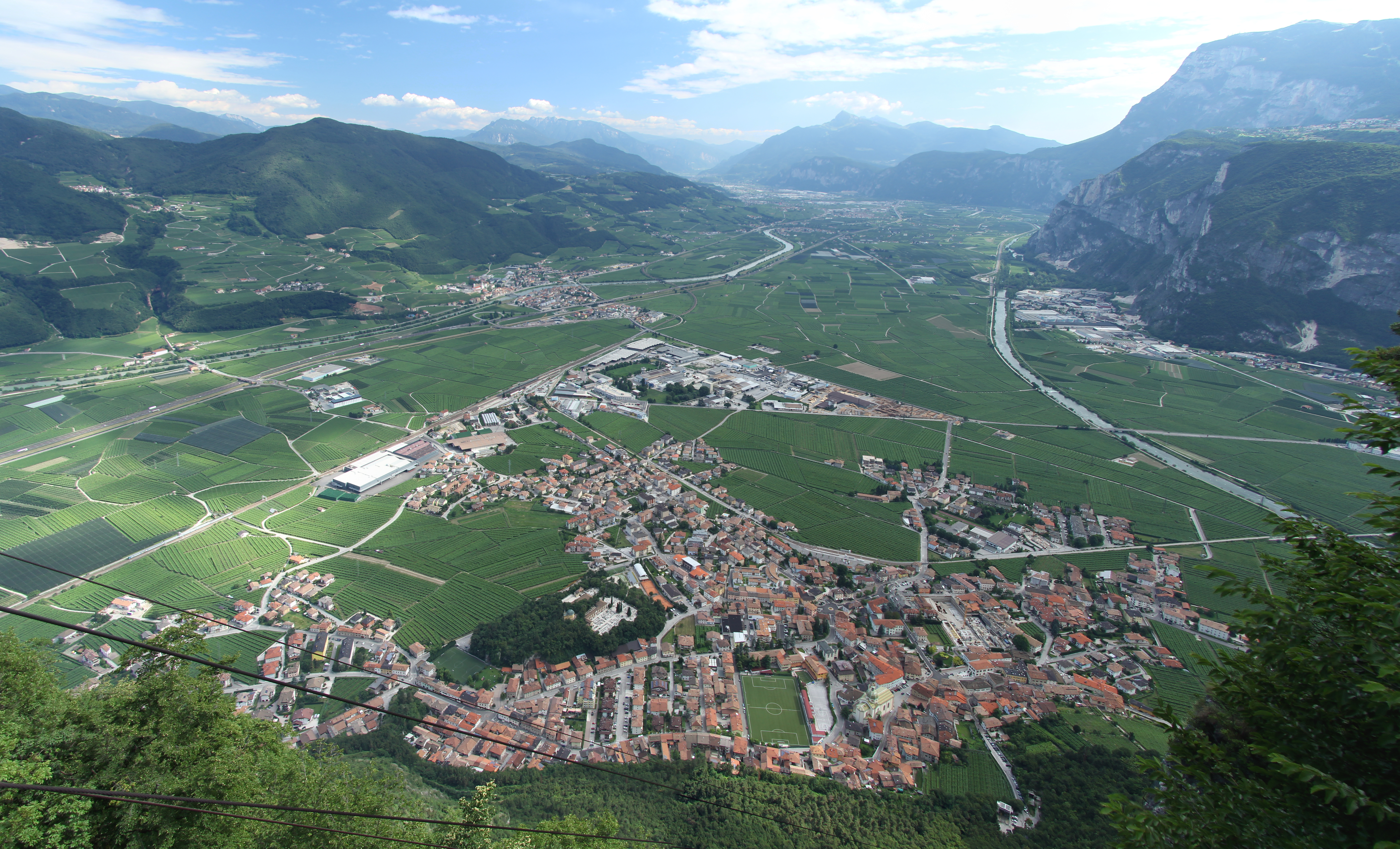 Mezzocorona (Italy): panorama of Mezzocorona from the cableway upper station.